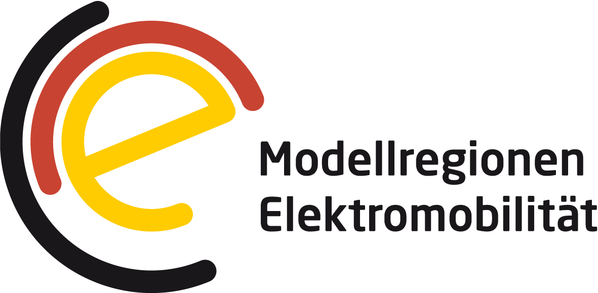 Logo model regions eMobility in Germany